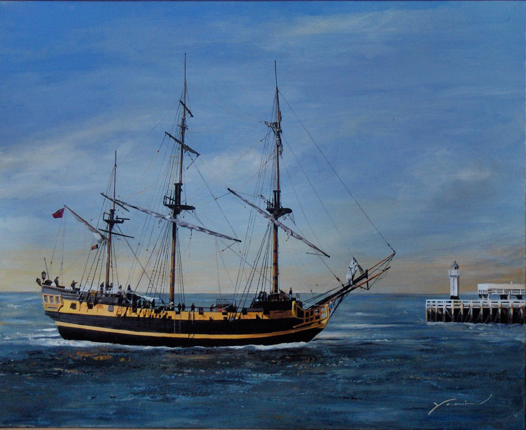 The frigate "Grand Turk" entering the harbour of Ostend, Belgium; painting by Yasmina (2008)